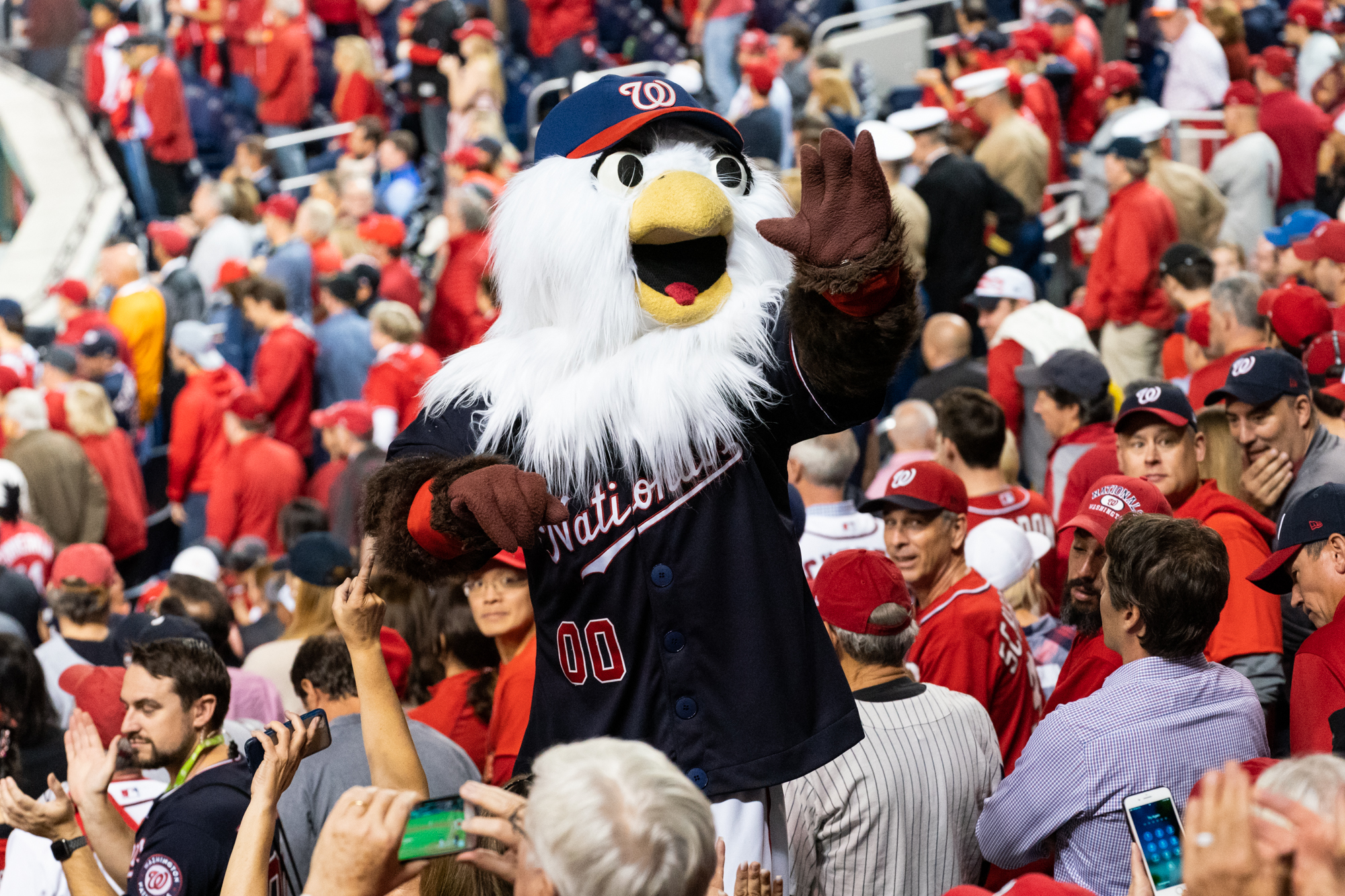 The eagle mascot cheers on the Nationals during Game 5 of the MLB World Series between the Washington Nationals and the Houston Astros baseball teams on Sunday evening, Oct 27, 2019, at Nationals Park in Washington, D.C. (Official White House Photo by Andrea Hanks)